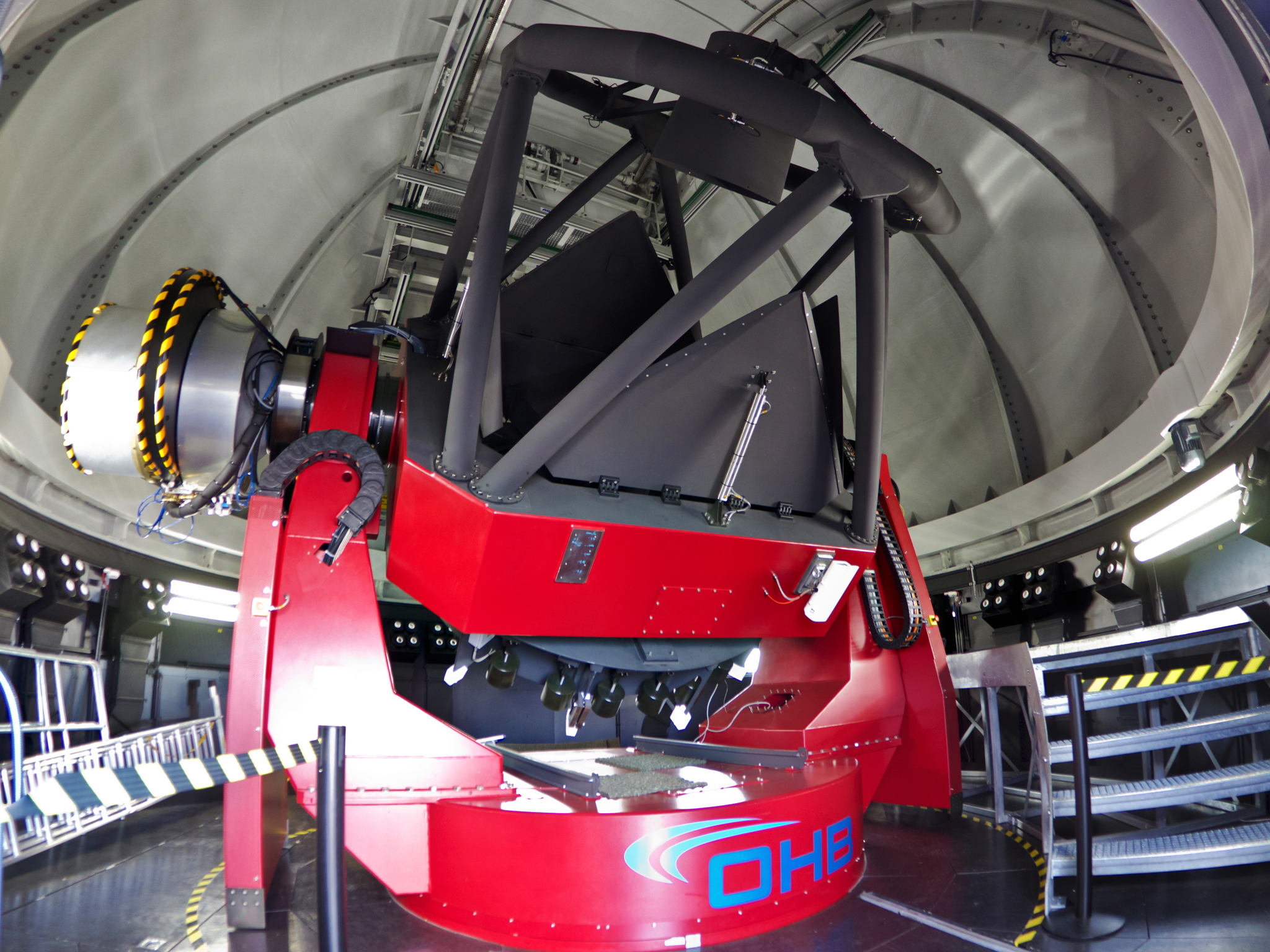 The 2.0m f/7.8 Fraunhofer reflector of the Wendelstein Observatory. The telescope was installed in 2011. It is named after the famous Bavarian telescope maker Joseph von Fraunhofer. This instrument is the newest, most modern 2m-class telescope in Europe. The silver box at the left is the "Wendelstein Wide Field Imager" (WWFI), an array of four CCD chips (4048 x 4048 pixels each), covering a field of view of about 0.5°.